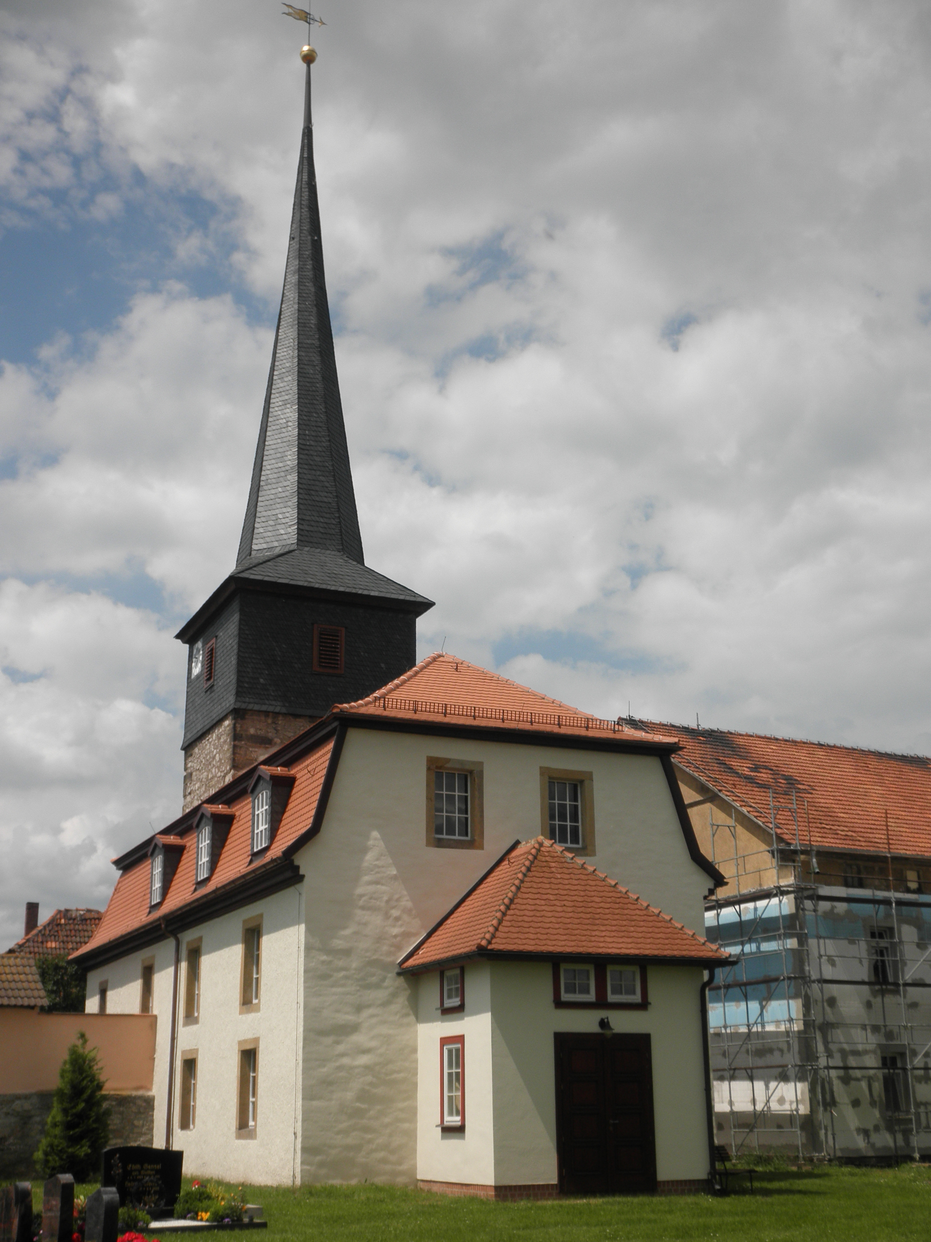 Church in Eberstädt (Sonneborn, Thuringia)